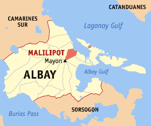 Locator map of Malilipot in Albay, Philippines.